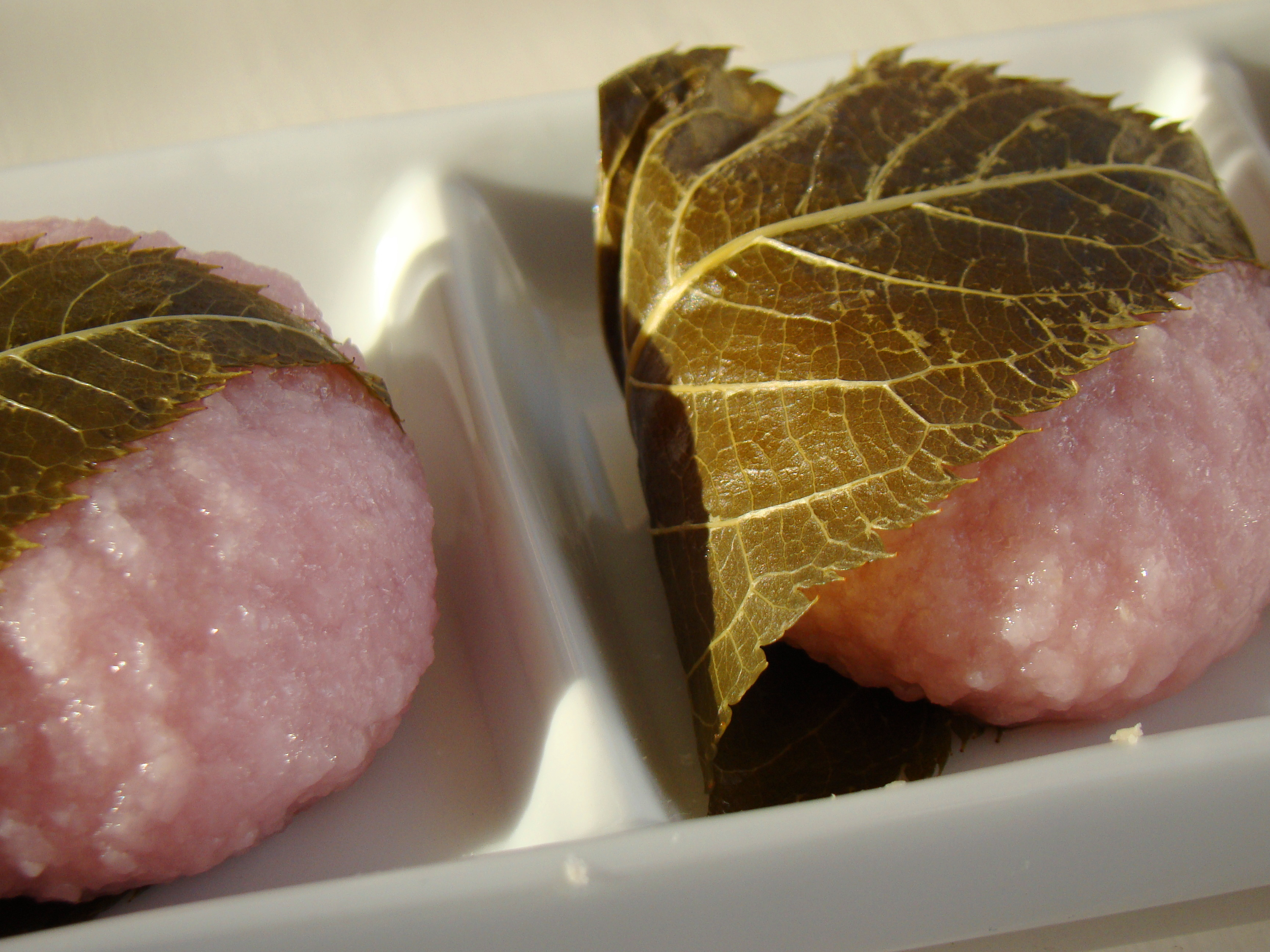 Sakura mochi